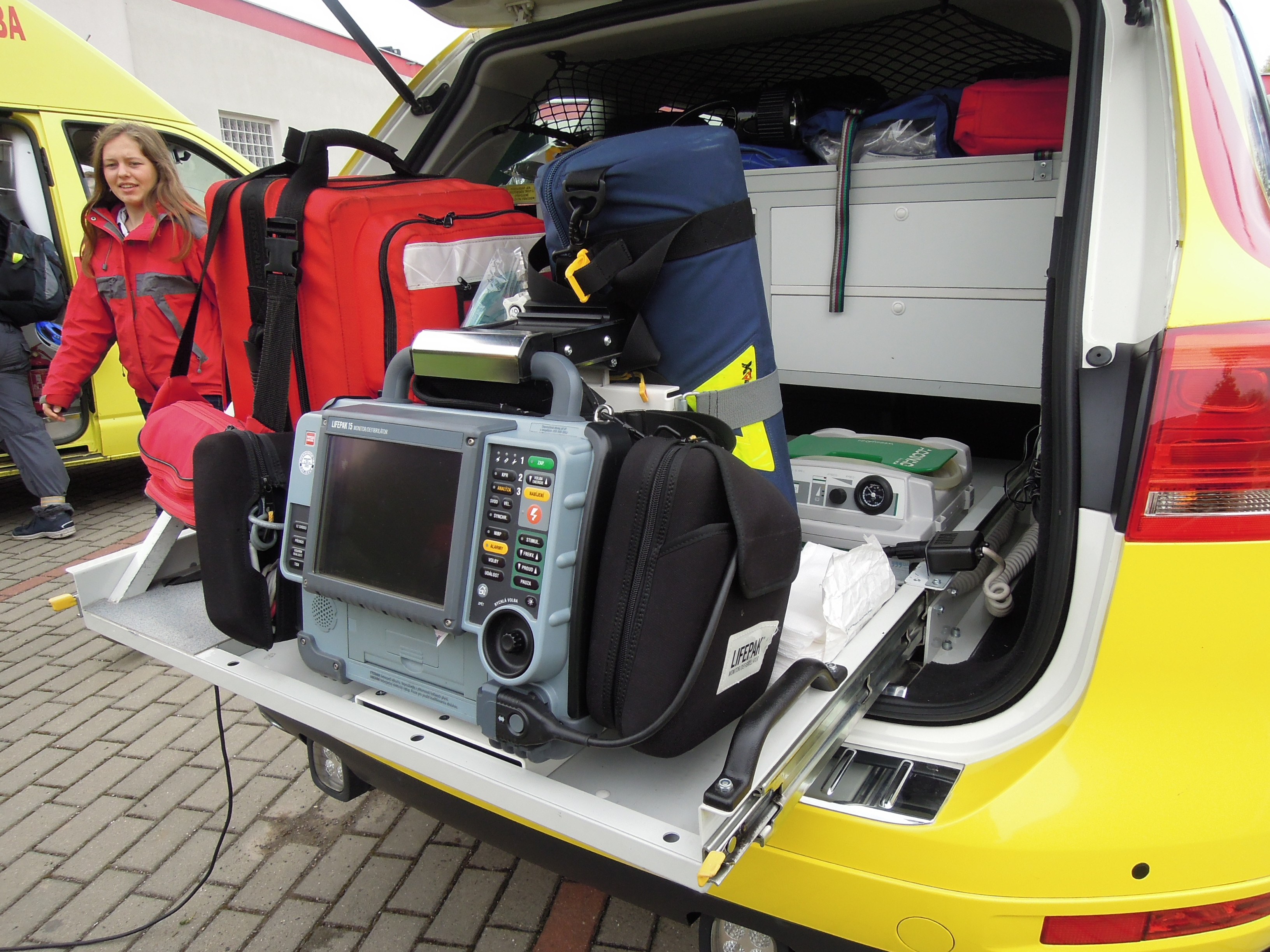 Interior of first responder Volkswagen Touareg 2nd generation of Zdravotnická záchranná služba Královéhradeckého kraje, Czech Republic